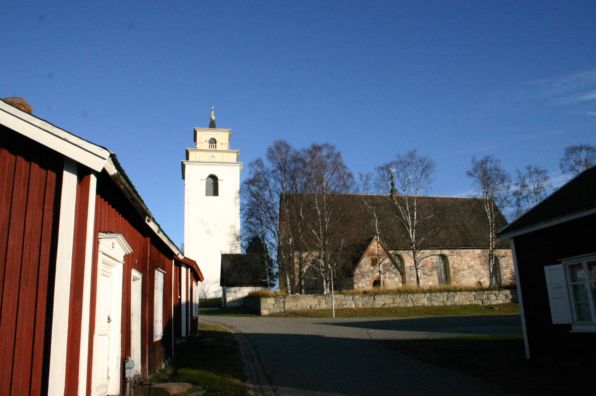 Description: Gammelstad Church Town (Gammelstad,Sweden) source: created on 18.10.2005 by Stephan Herz with Canon EOS 300D